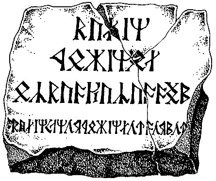 Balin Tomb Description from J. R. R. Tolkien's novels